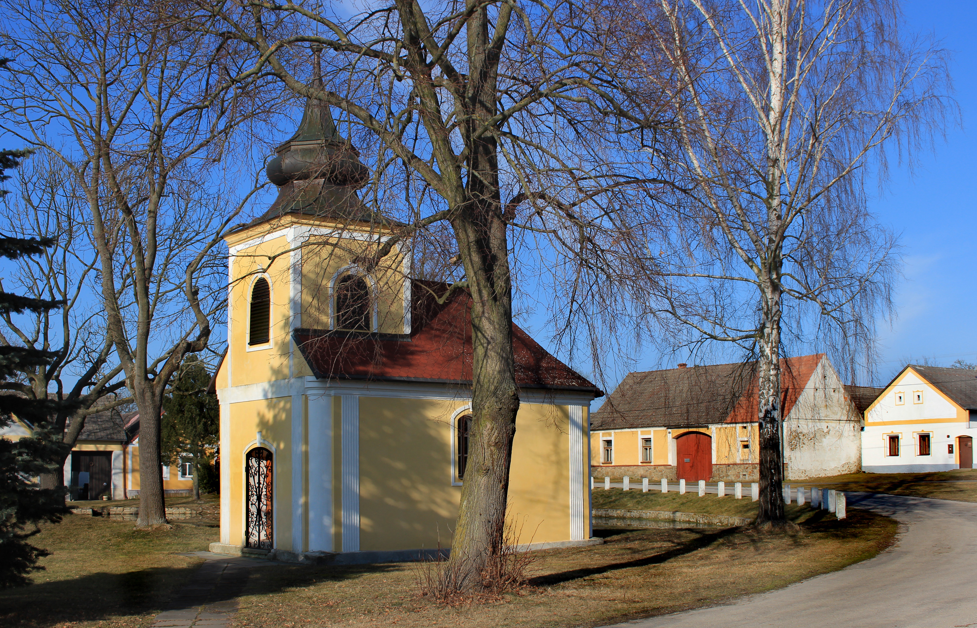 Chapel in Újezdec village, Czech Republic.